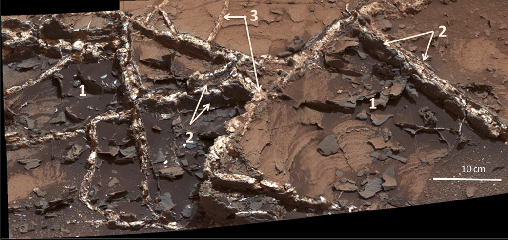 Prominent mineral veins at the "Garden City" site examined by NASA's Curiosity Mars rover vary in thickness and brightness, as seen in this image from Curiosity's Mast Camera (Mastcam). The image covers and area roughly 2 feet (60 centimeters) across. Types of vein material evident in the area include: 1) thin, dark-toned fracture filling material; 2) thick, dark-toned vein material in large fractures; 3) light-toned vein material, which was deposited last. This image includes annotations identifying each of those three major kinds and a scale bar indicating 10 centimeters (3.9 inches).